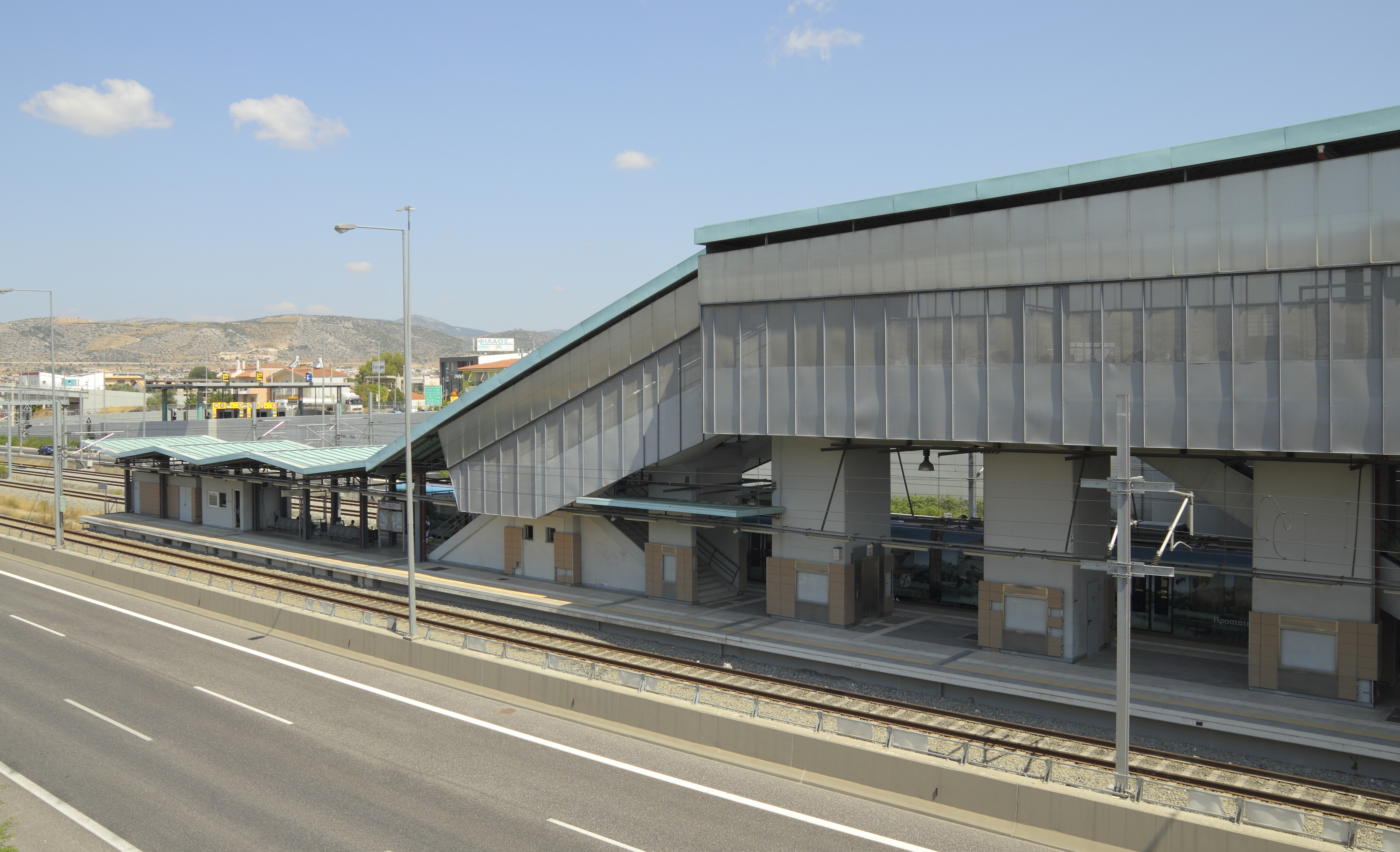 Proastiakos station «Ano Liosia» near Athens (Attica, Greece)